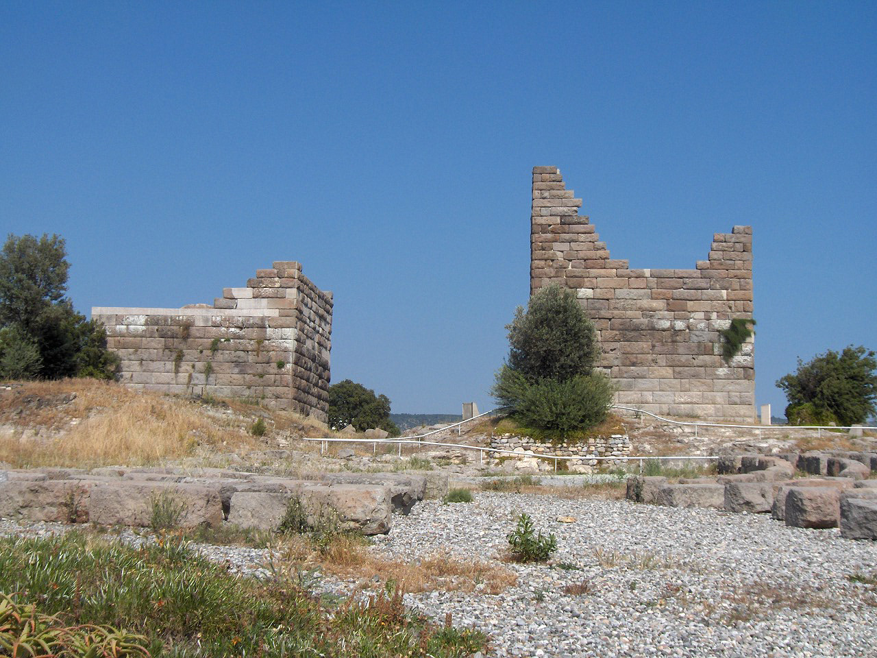 Ruins of the fortications around the city; 4th c. BC; Bodrum, Turkey